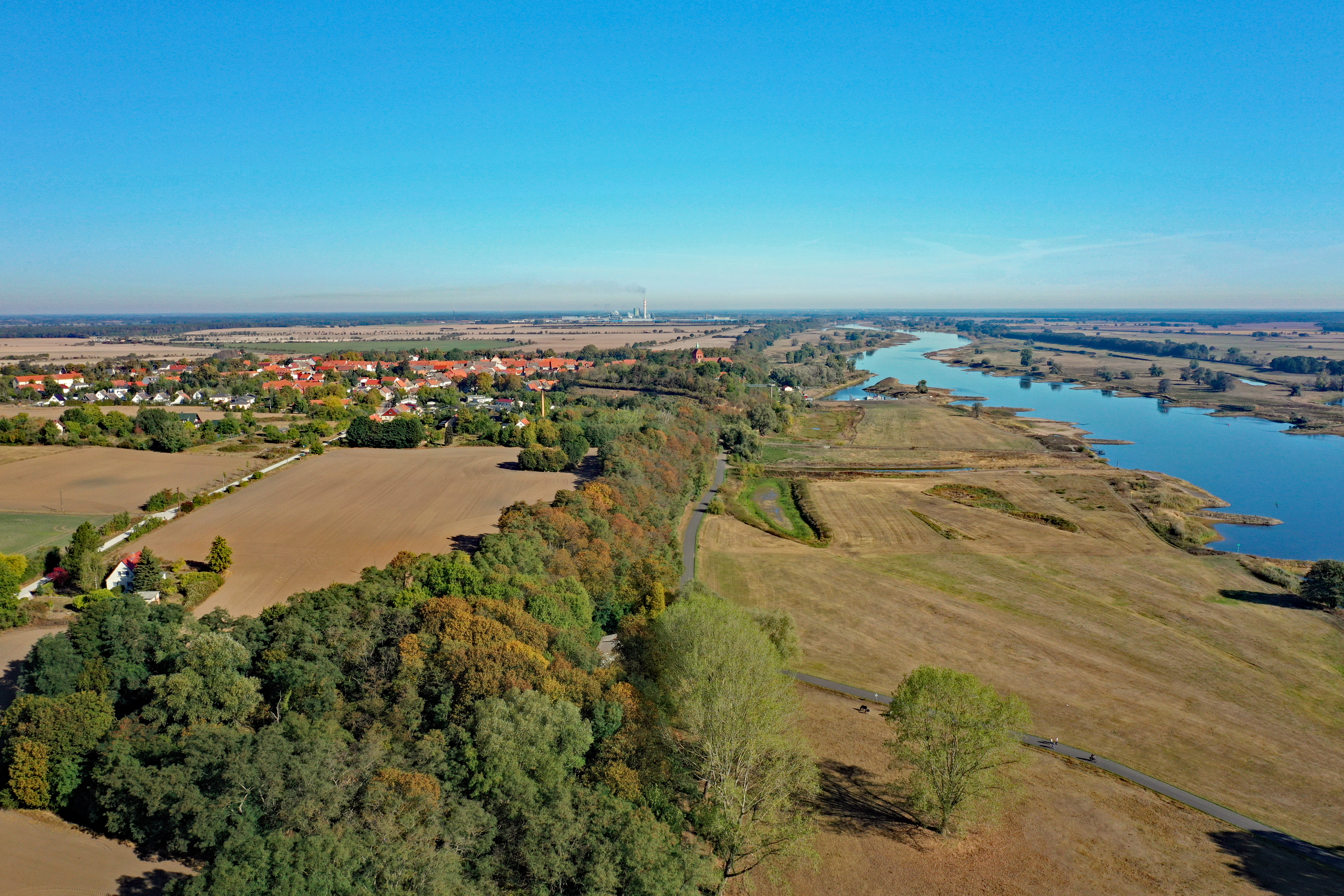 Arneburg (Saxony-Anhalt, Germany)